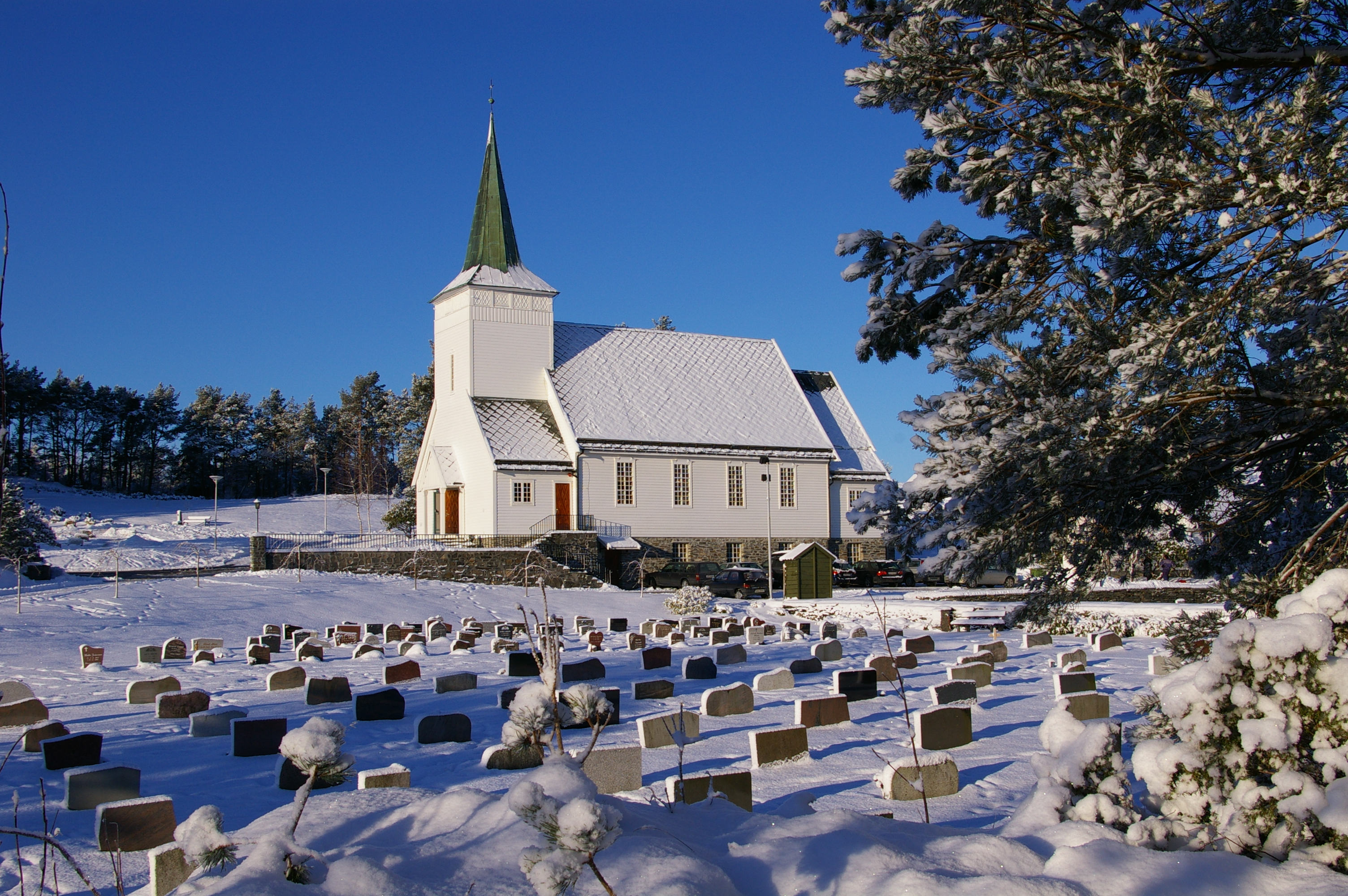 Tveit kirke, Askøy, Norway. February 2009